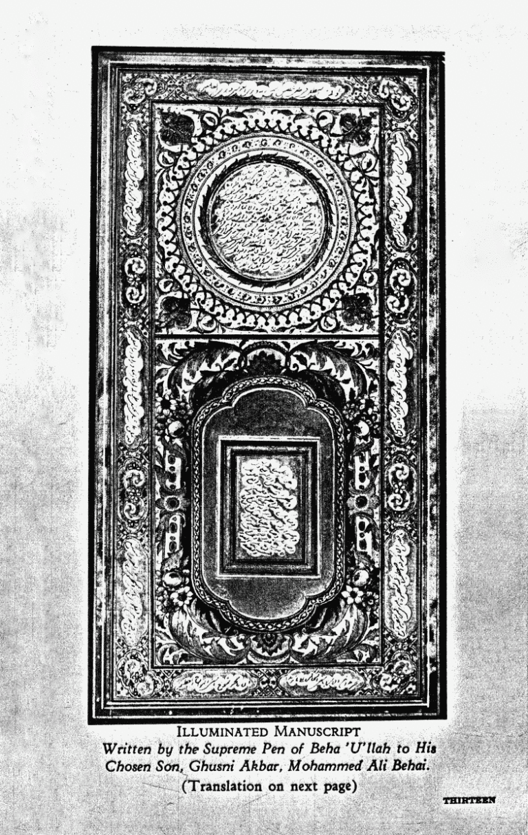 Disputed tablet of Baha’u’Ilah, in which he praises his second son Mohammed Ali.